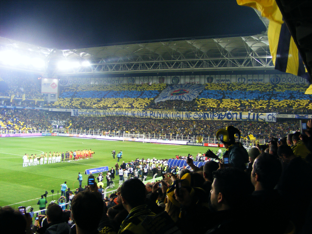 FB-GS Seramoni